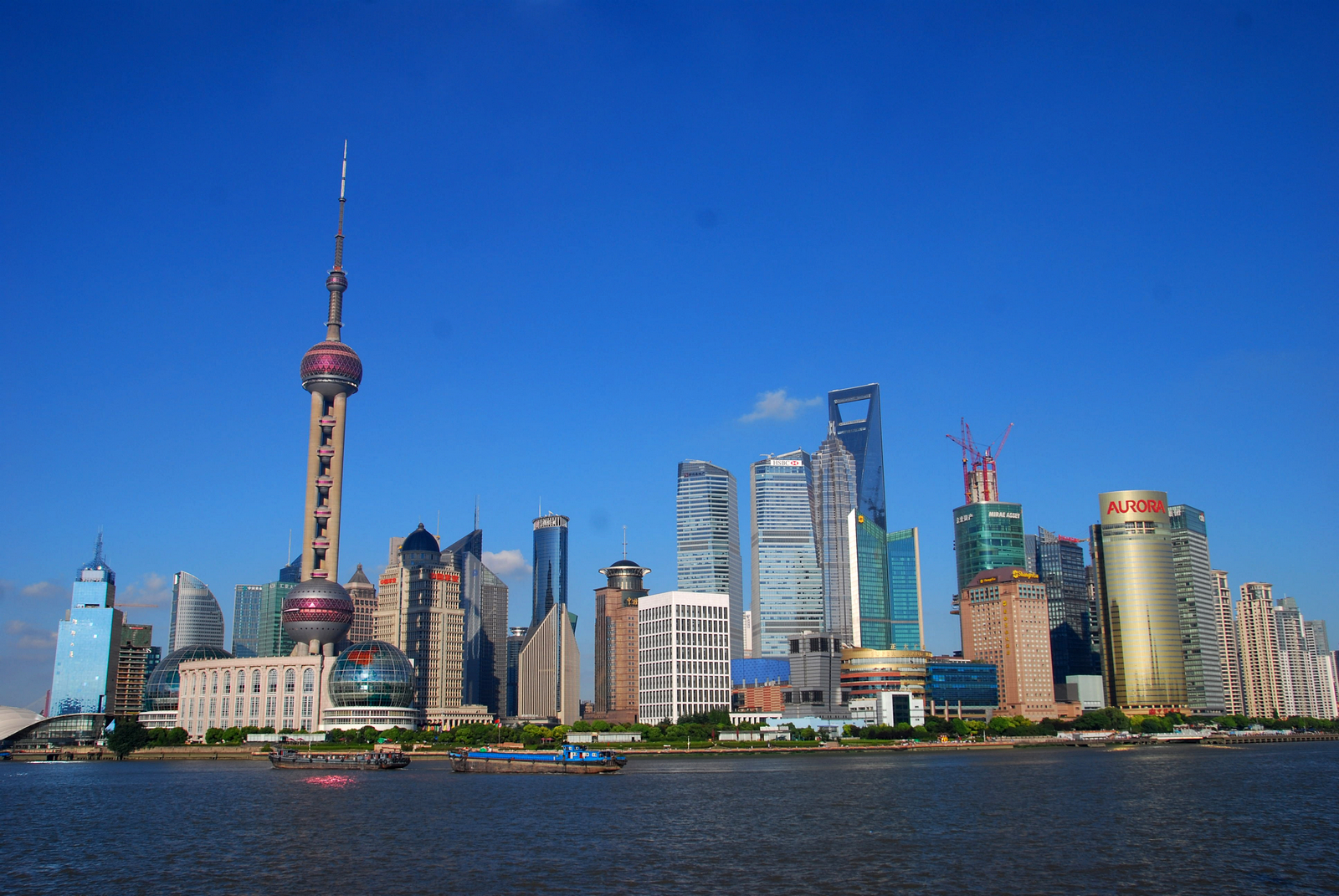 Pudong, Shangau, China